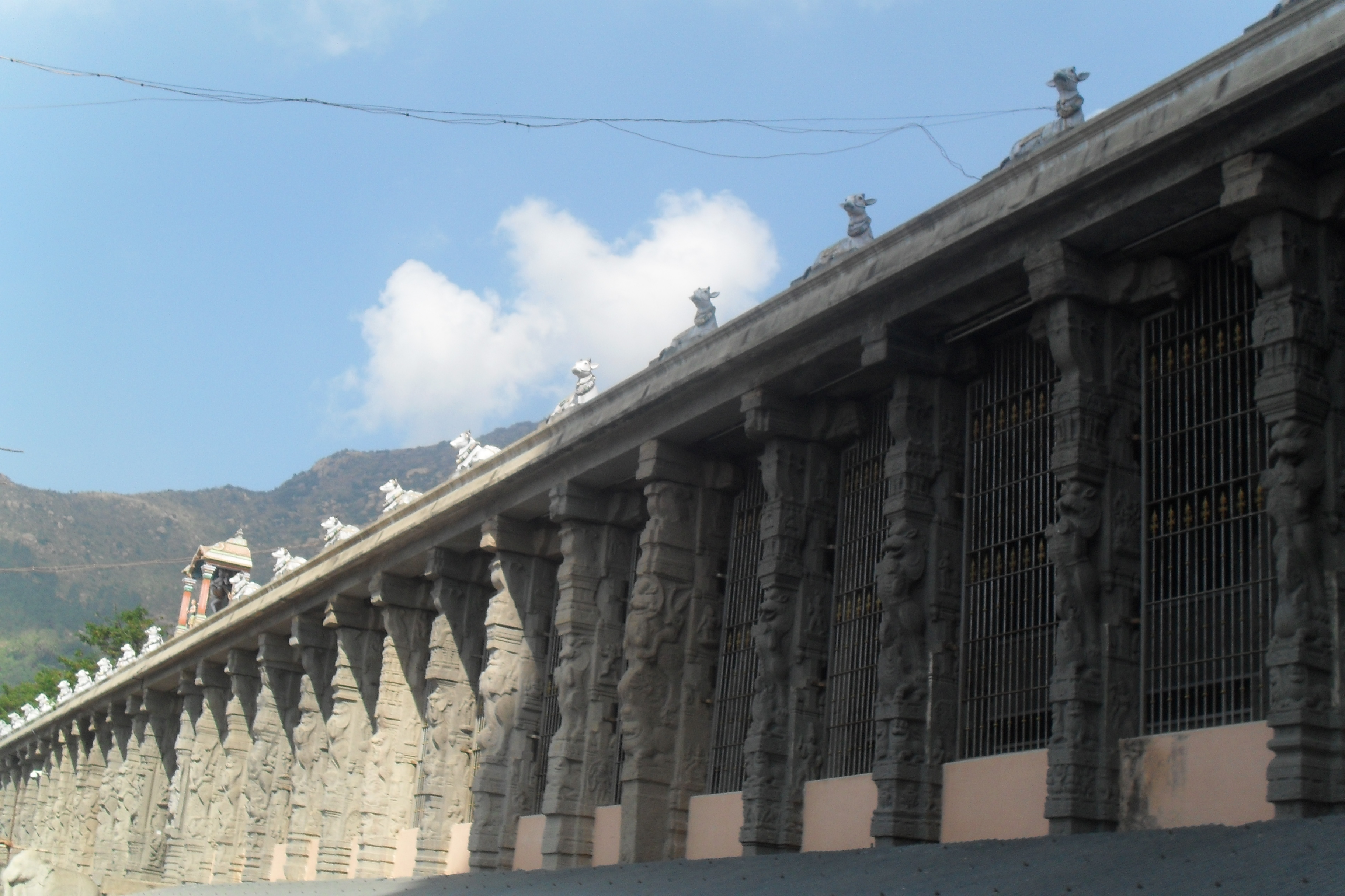 The View of 1k Pillars mahal in temple